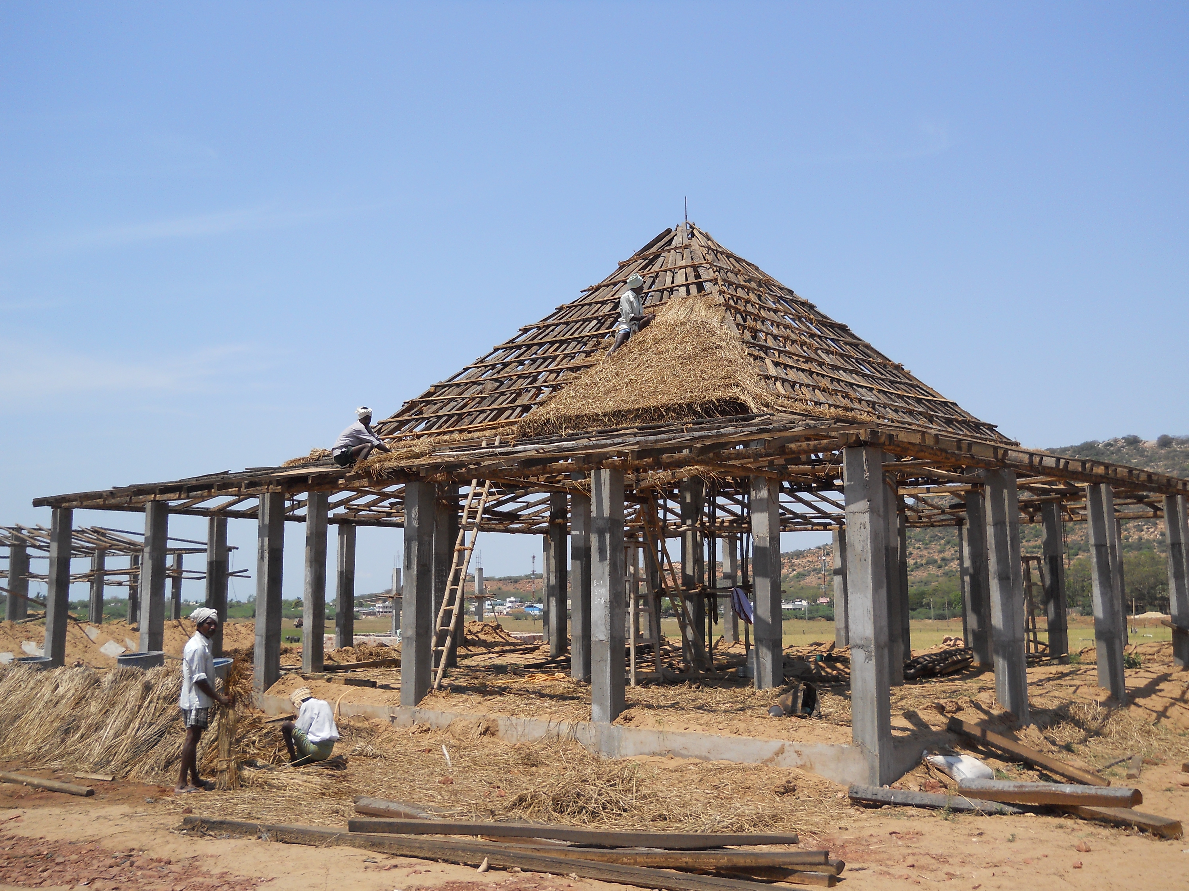 Thatcher